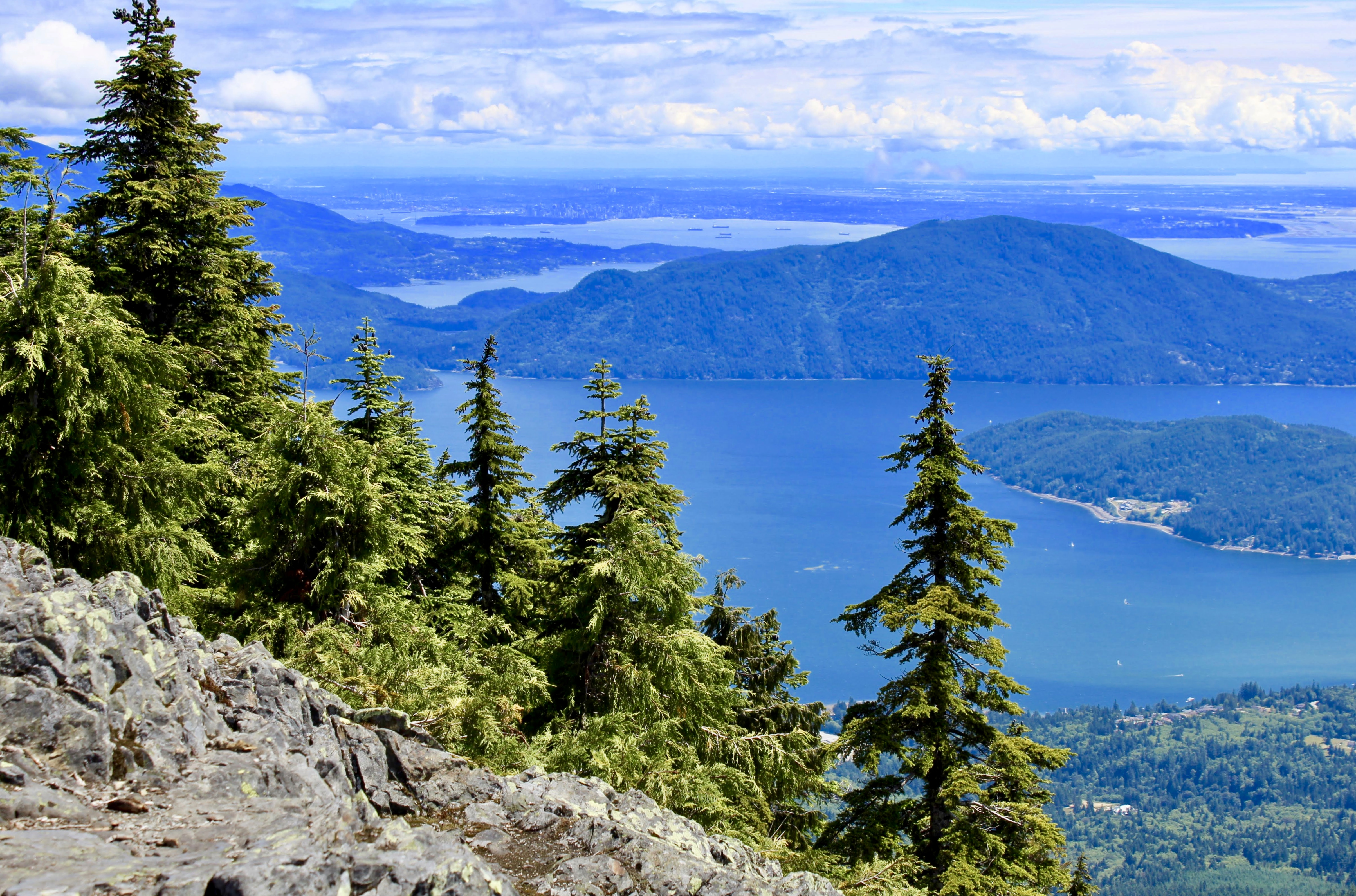 View near the peak of Mount Elphinstone